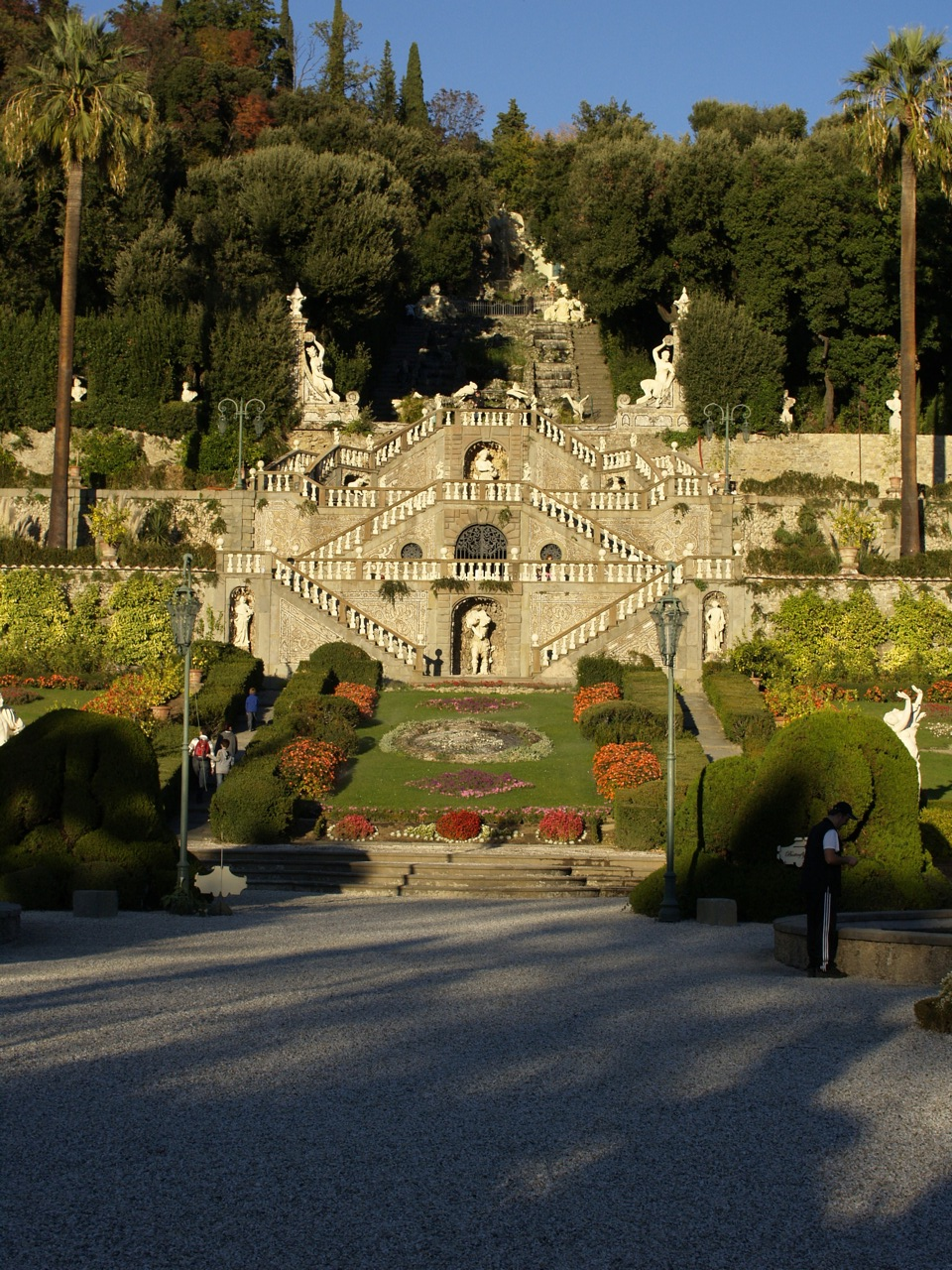 see above